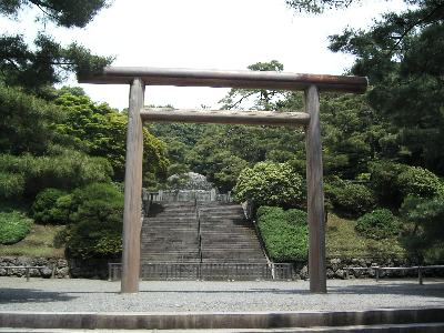 Emperor Taisho's Imperial mausoleum.